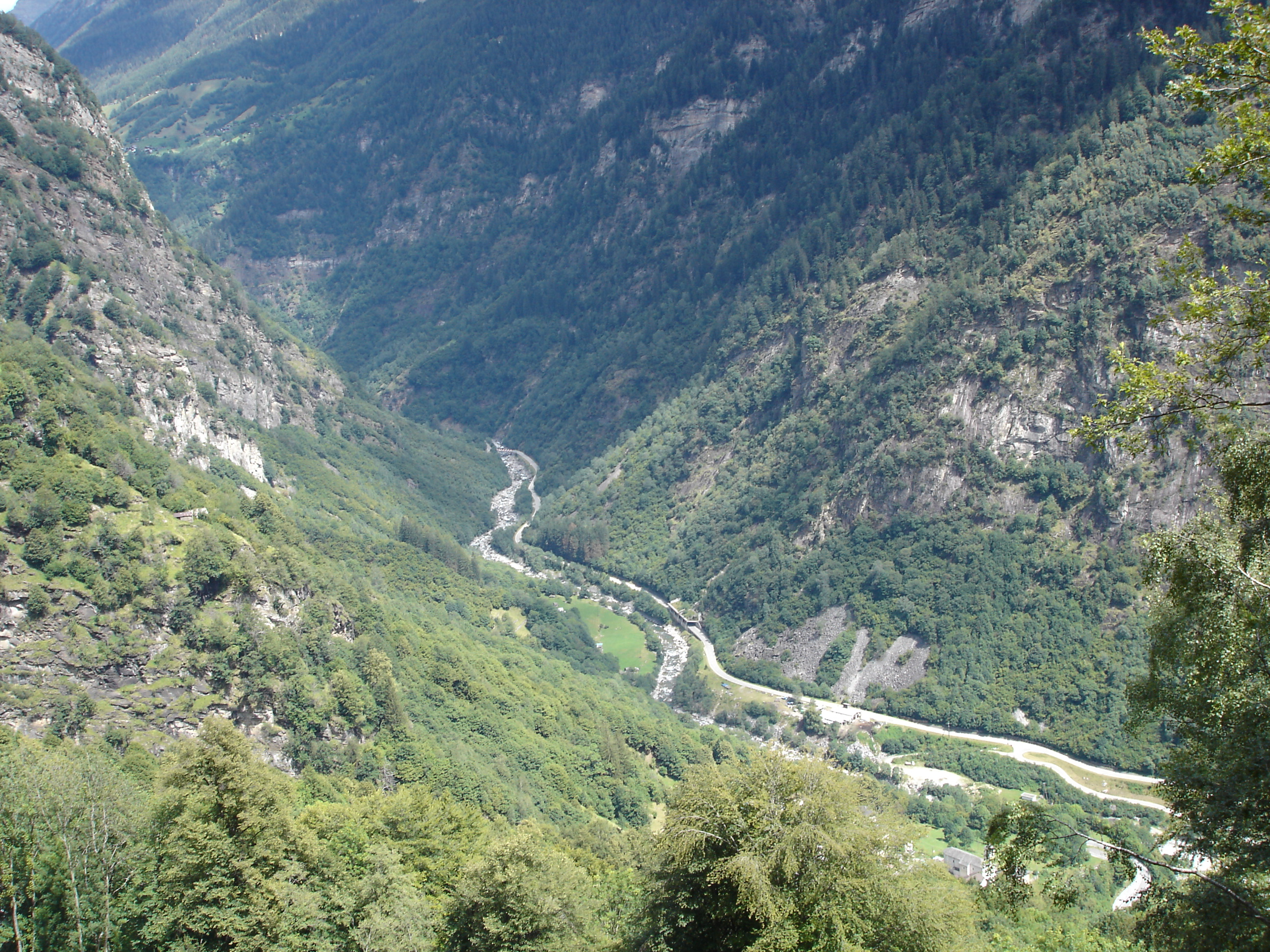 View into the Val Calanca between Arvigo and Selma